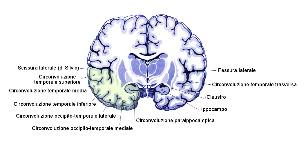 Italian version of File:Gehirn_Frontalschnitt_hippocampus.png. This vector image was created with Inkscape.